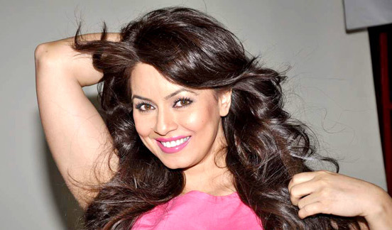 Mahima Choudhary announced as brand ambassador of Pioneer Herbal